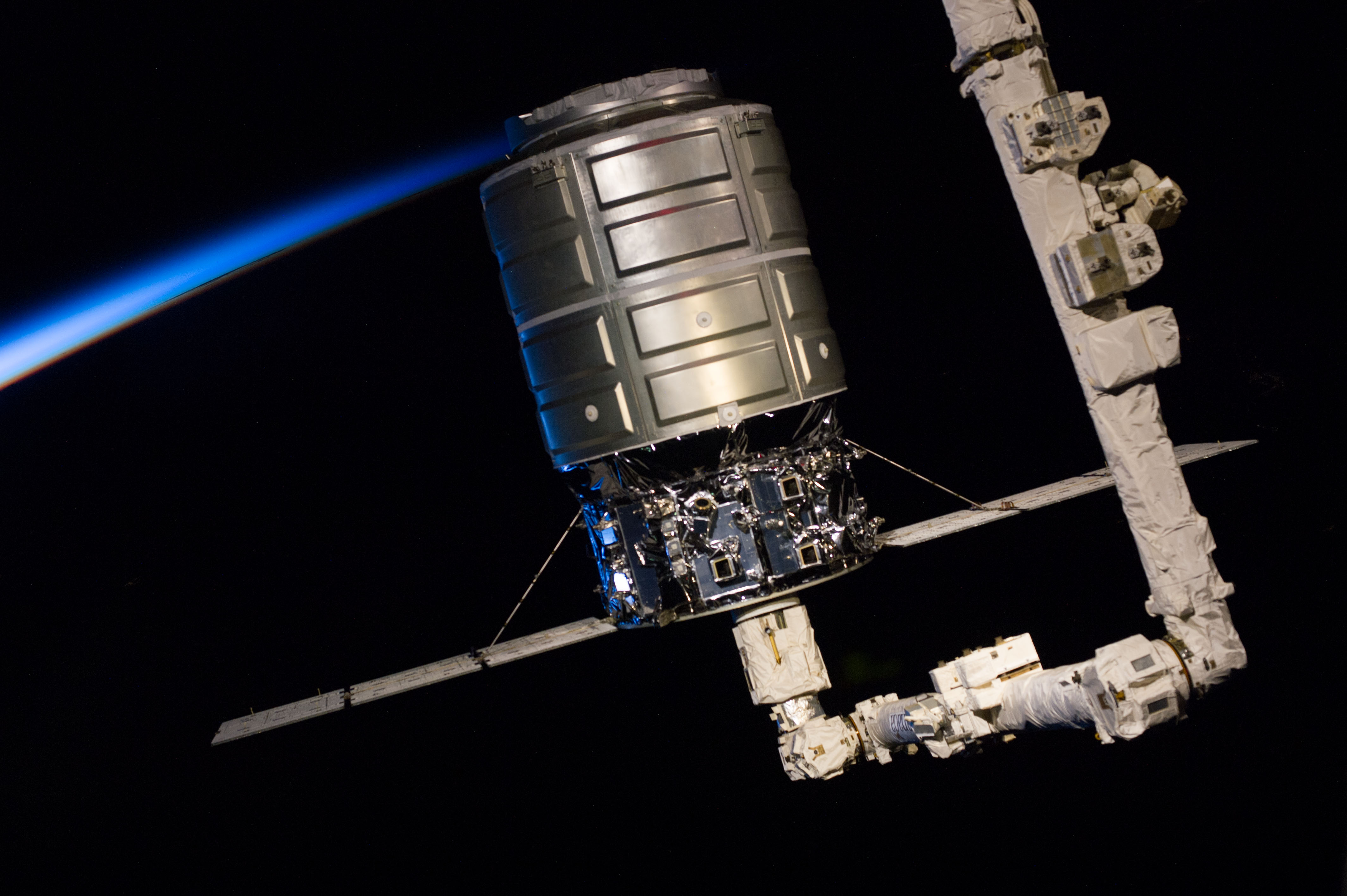 This medium close-up view, photographed by one of the Expedition 37 crew members, shows the first Cygnus commercial cargo spacecraft built by Orbital Sciences Corp. attached to the end of the robotic arm (AKA Canadarm2) on the International Space Station after the two spacecraft converged at 7:01 a.m. EDT on Sept. 29, 2013.